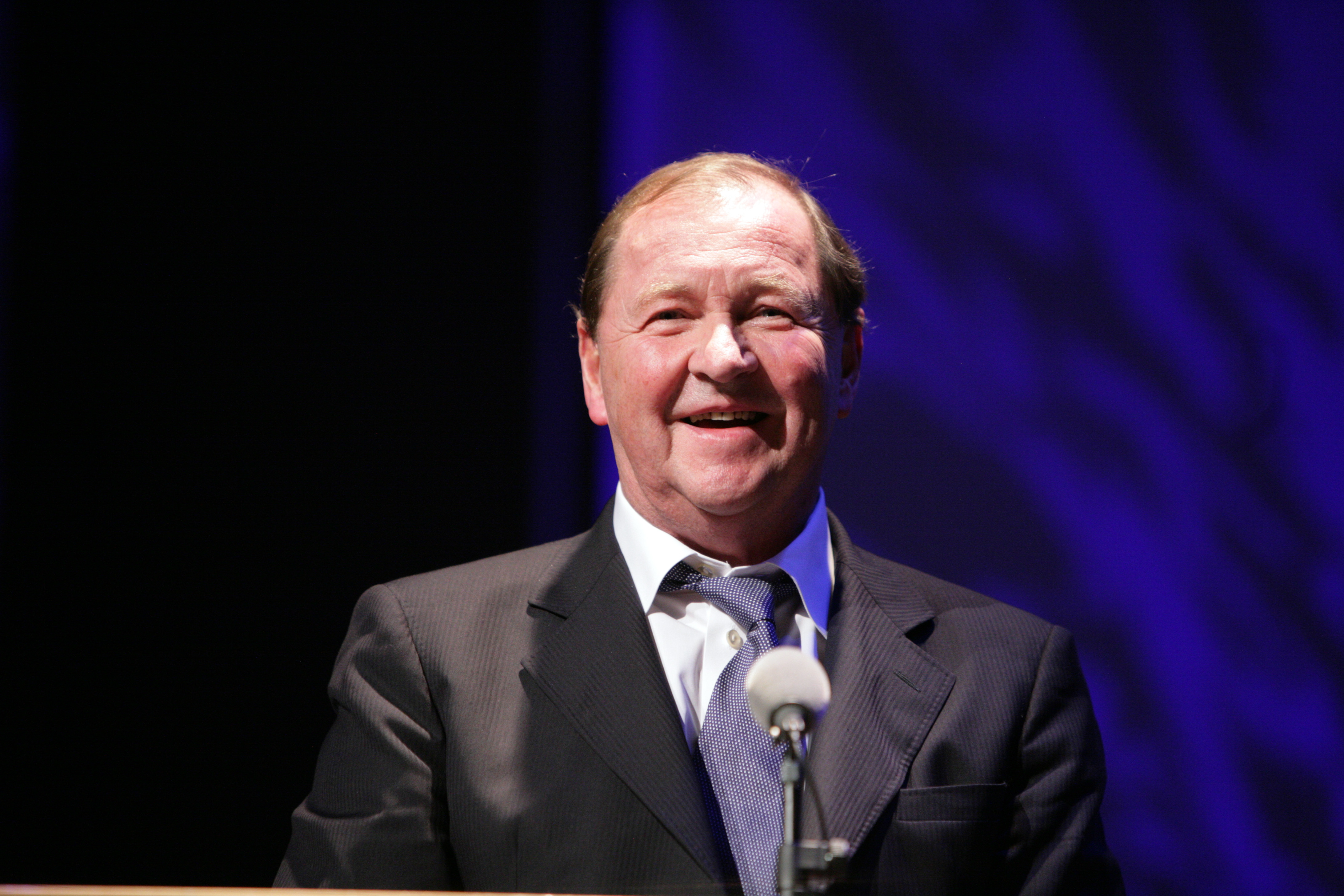 Roy Andersson vinnare av Nordiska rådets filmpris 2008. Prisutdelningen i Helsingfors 2008-10-28 Keywords: Film Prize